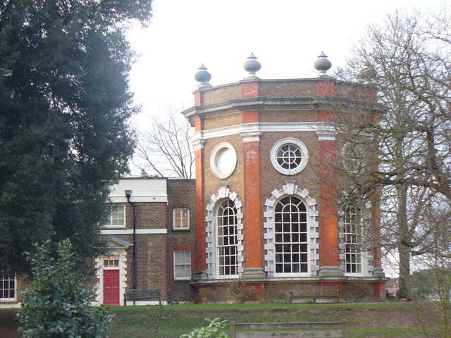 Orleans House Gallery The baroque Octagon Room of the historic mansion, now owned by Richmond Borough, and used for art exhibitions.